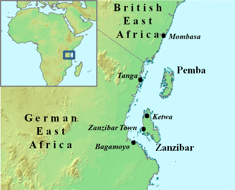 A map showing Zanzibar Town's location in Zanzibar, and Zanzibar's location relative to Africa.